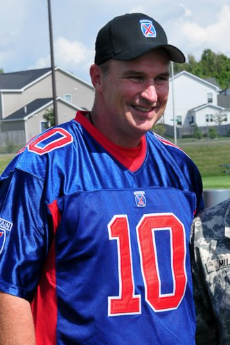 Syracuse University football head coach, Doug Marrone, stands with Maj. Gen. Mark A. Milley, Commanding General of the 10th Mountain Division and Fort Drum, during the football team's first day of practices at Fort Drum, Aug. 13. The SU football team is at Fort Drum for a weeklong preseason training camp.